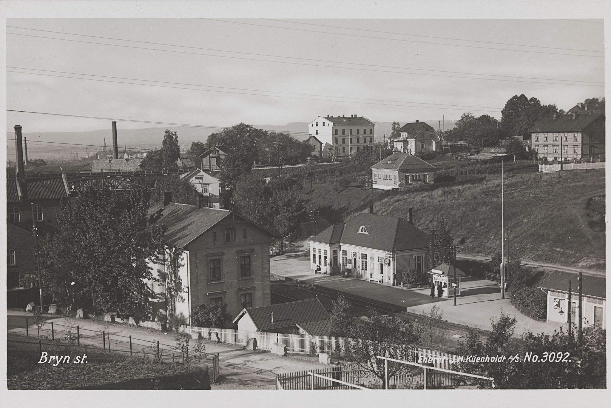 Tittel / Title: Bryn st. Beskrivelse / Description:Postkort. Dato / Date: ukjent / unknown Fotograf / Photographer: ukjent / unknown Utgiver / Publisher: J. M. Küenholdt Sted / Place: Oslo, Bryn, Bryn stasjon Eier / Owner Institution: Nasjonalbiblioteket / National Library of Norway Lenke / Link: Bildesignatur / Image Number: bldsa_PK2004